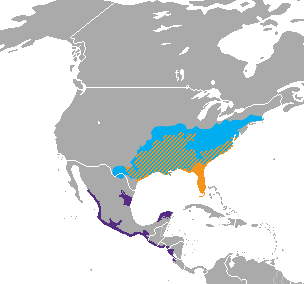 Based on constituent taxa. Agkistrodon bilineatus - magenta violet Agkistrodon piscivorus - yellow orange Agkistrodon contortrix - cyan